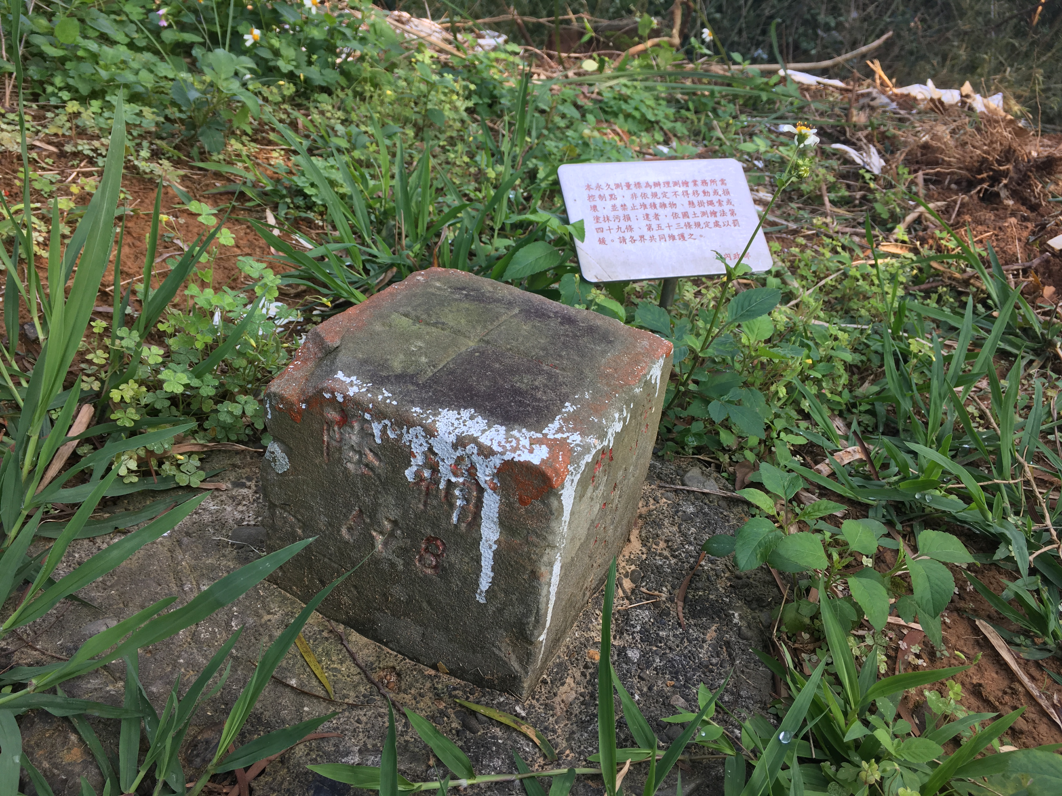 The highest point of Wubuku Mountain in Hsinchu City, Taiwan.